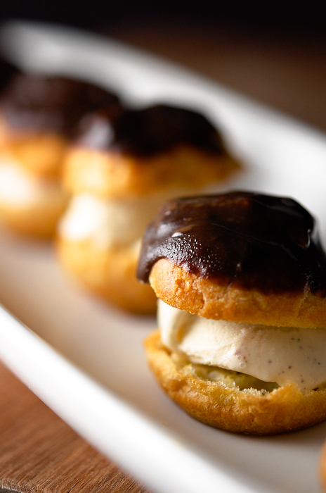 Blogged here. Profiteroles filled with ice cream scoops and decorated with chocolate glaze (bittersweet chocolate, confectioner’s sugar, heavy cream).